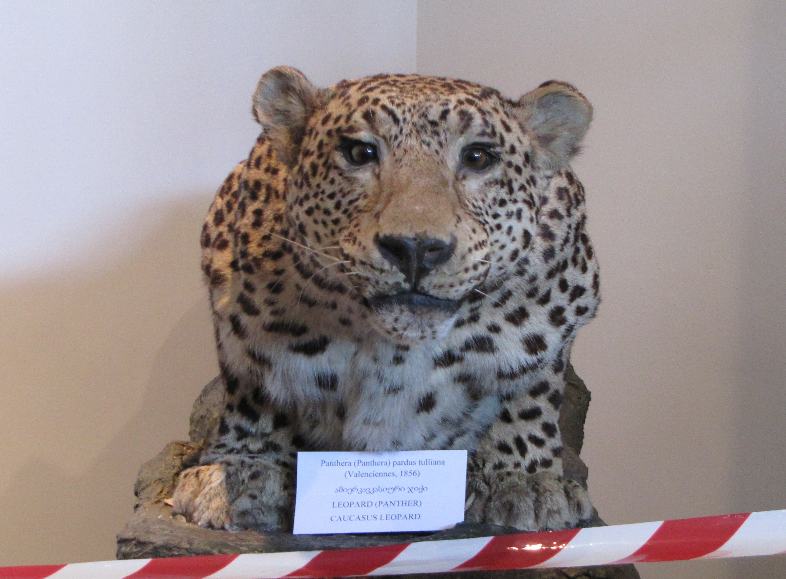 stuffed Caucasus Leopard (Panthera pardus tulliana) in Georgian National Museum